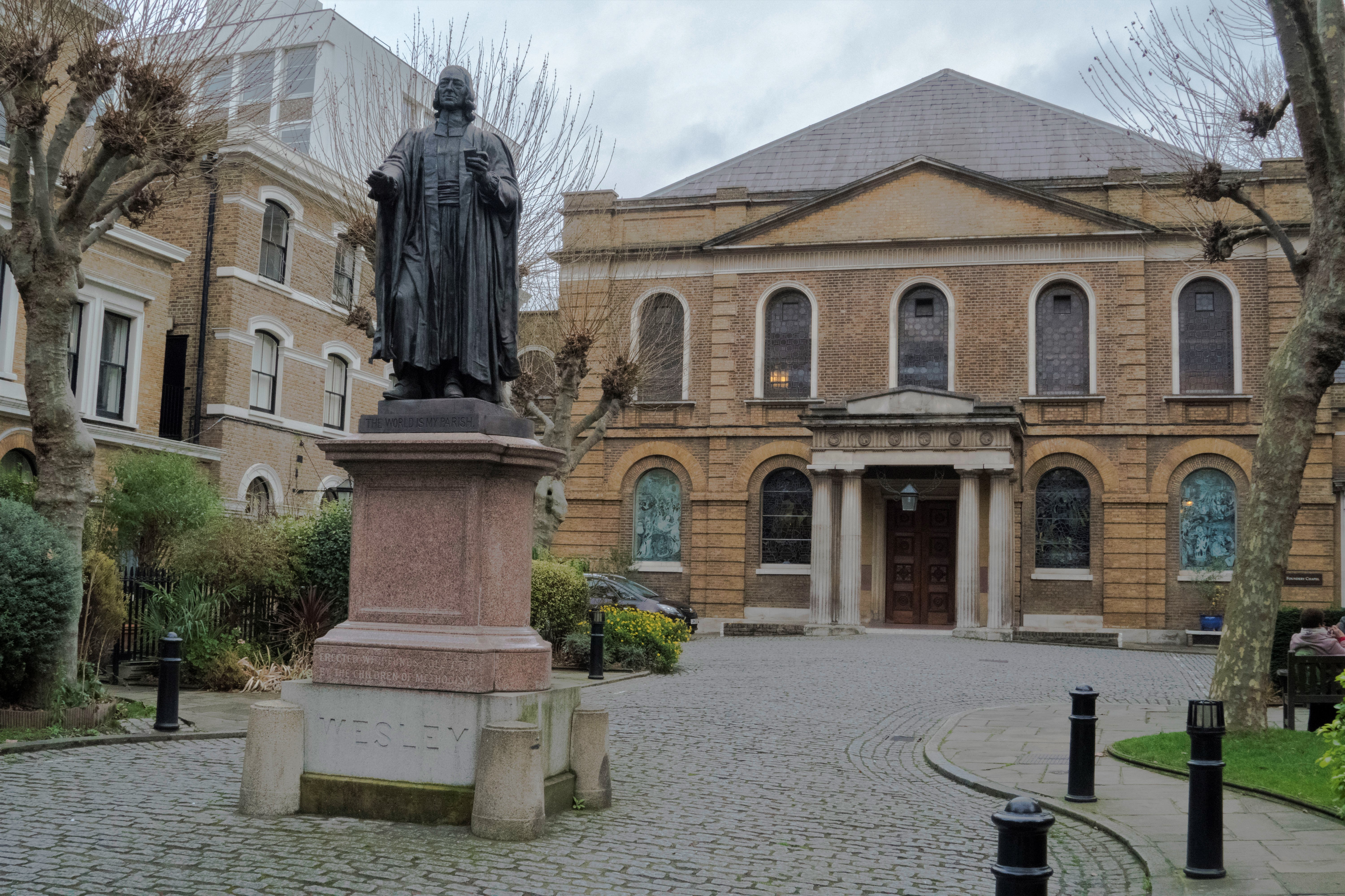 Wesley's Chapel, Methodist headquarters, London, England